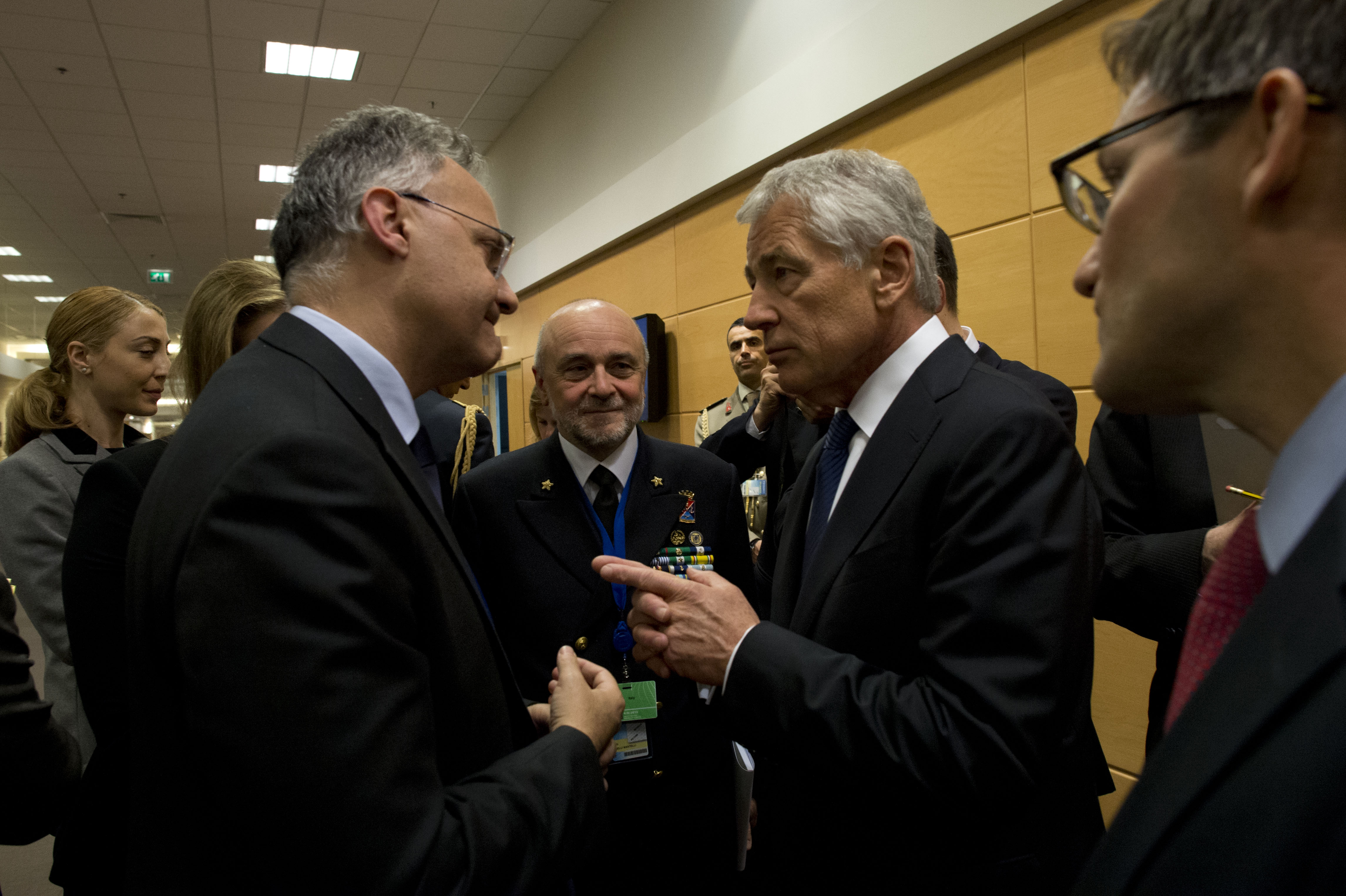 Secretary of Defense Chuck Hagel stops for a brief meeting with Italian Minister of Defense Mario Mauro during a session of the North Atlantic Council at NATO in Brussels, Belgium, June 4, 2013. Hagel attended the meeting as well as meeting with other NATO leadership. Photo by Erin A. Kirk-Cuomo (Released)